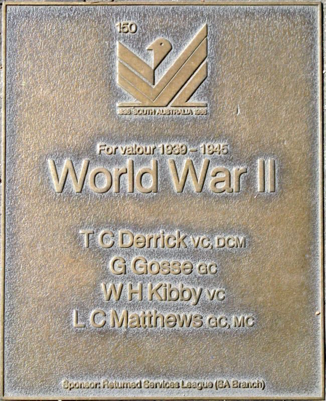 Jubilee 150 Walkway Plaque commemorating WWII heros